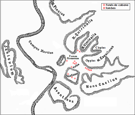 Map of Rome (Hills and Tibre), with archeological sites of the Xe-VIIe century B.C. (french legend)